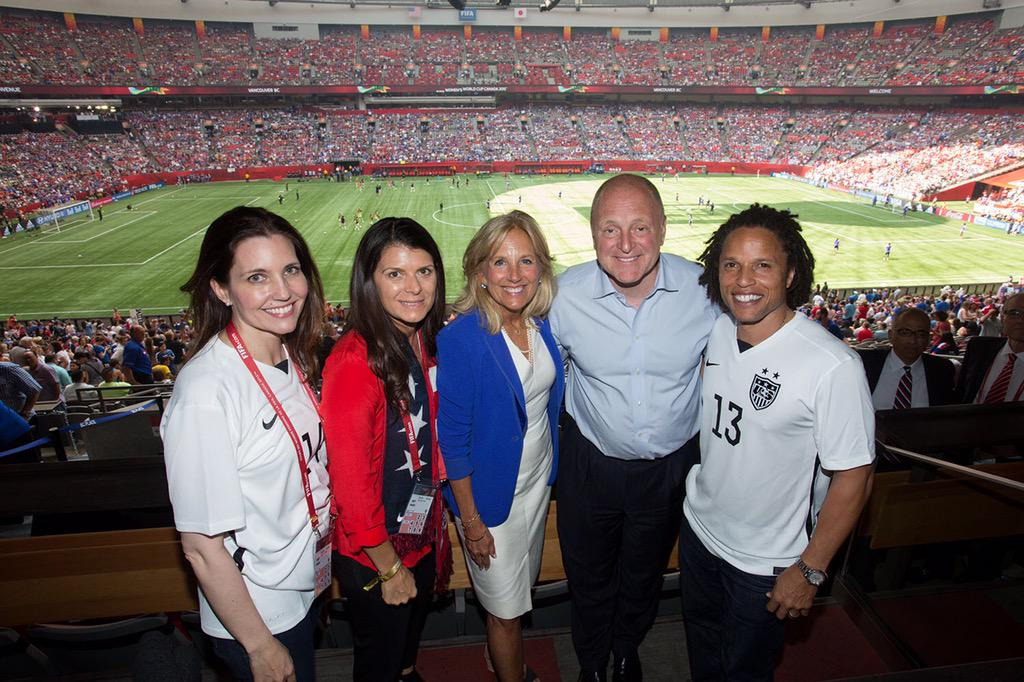 United States delegation at BC Place. (l to r) Evan Ryan, Mia Hamm, Jill Biden, Bruce Heyman, Cobi Jones